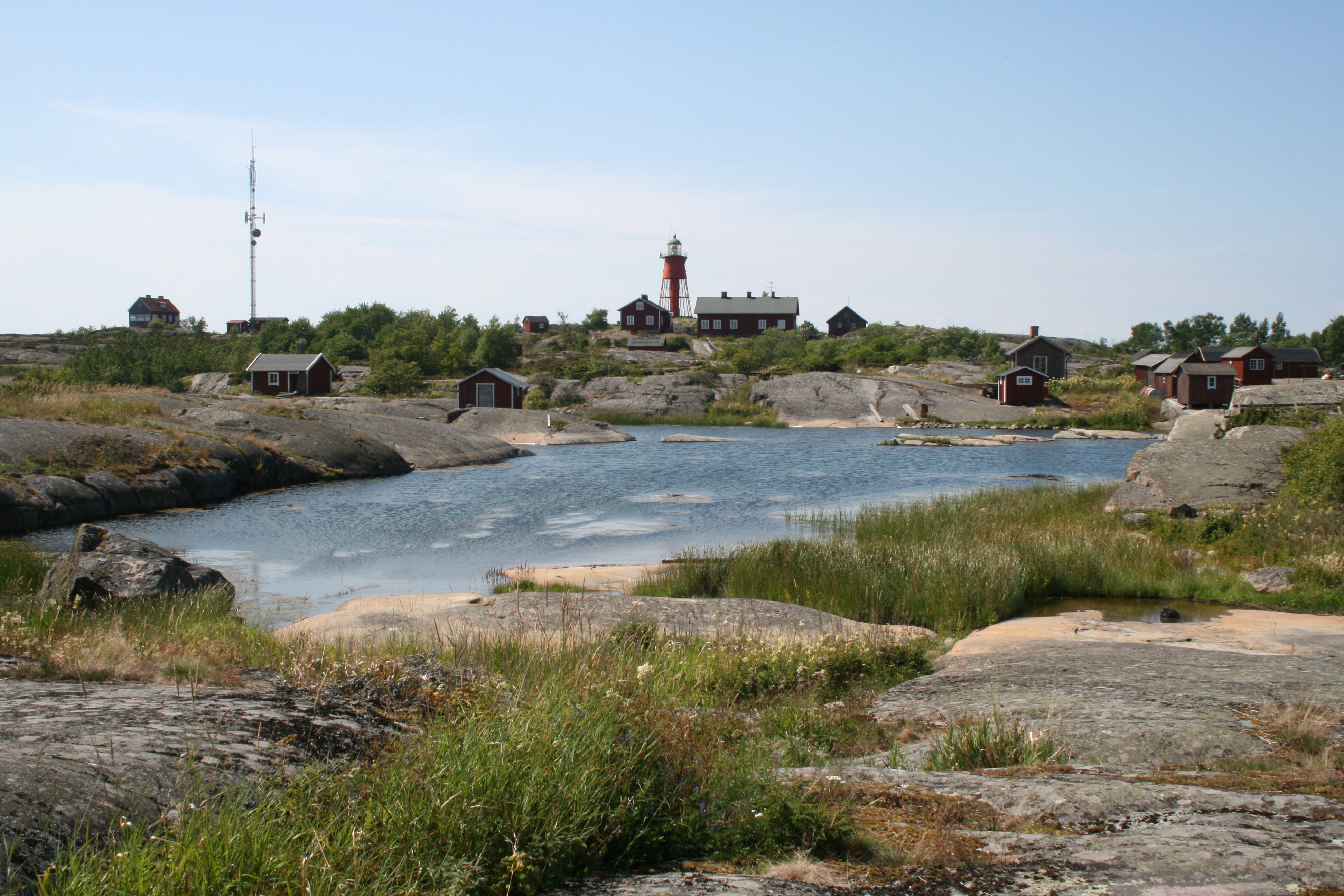 The harbour of Svenska Högarna in the Stockholm archipelago.